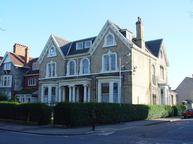 Kingston Villa, Pearson Park, Hull Standing at the junction with Park Road.